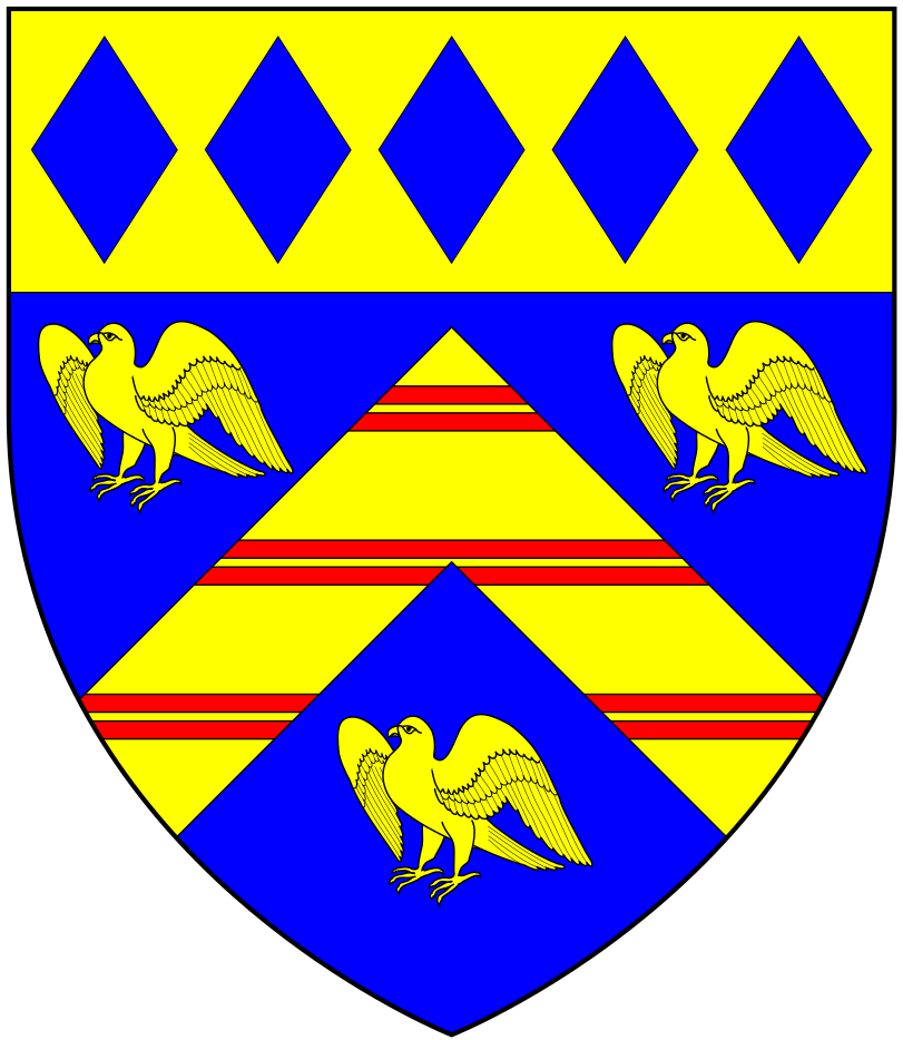 Arms of Lopes (Baron Roborough): Azure, a chevron or charged with three bars gemelles gules between three eagles rising of the second on a chief of the second five lozenges of the first (Montague-Smith, P.W. (ed.), Debrett's Peerage, Baronetage, Knightage and Companionage, Kelly's Directories Ltd, Kingston-upon-Thames, 1968, p.942)